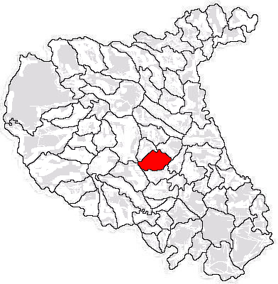 Limits of commune within Vrancea County